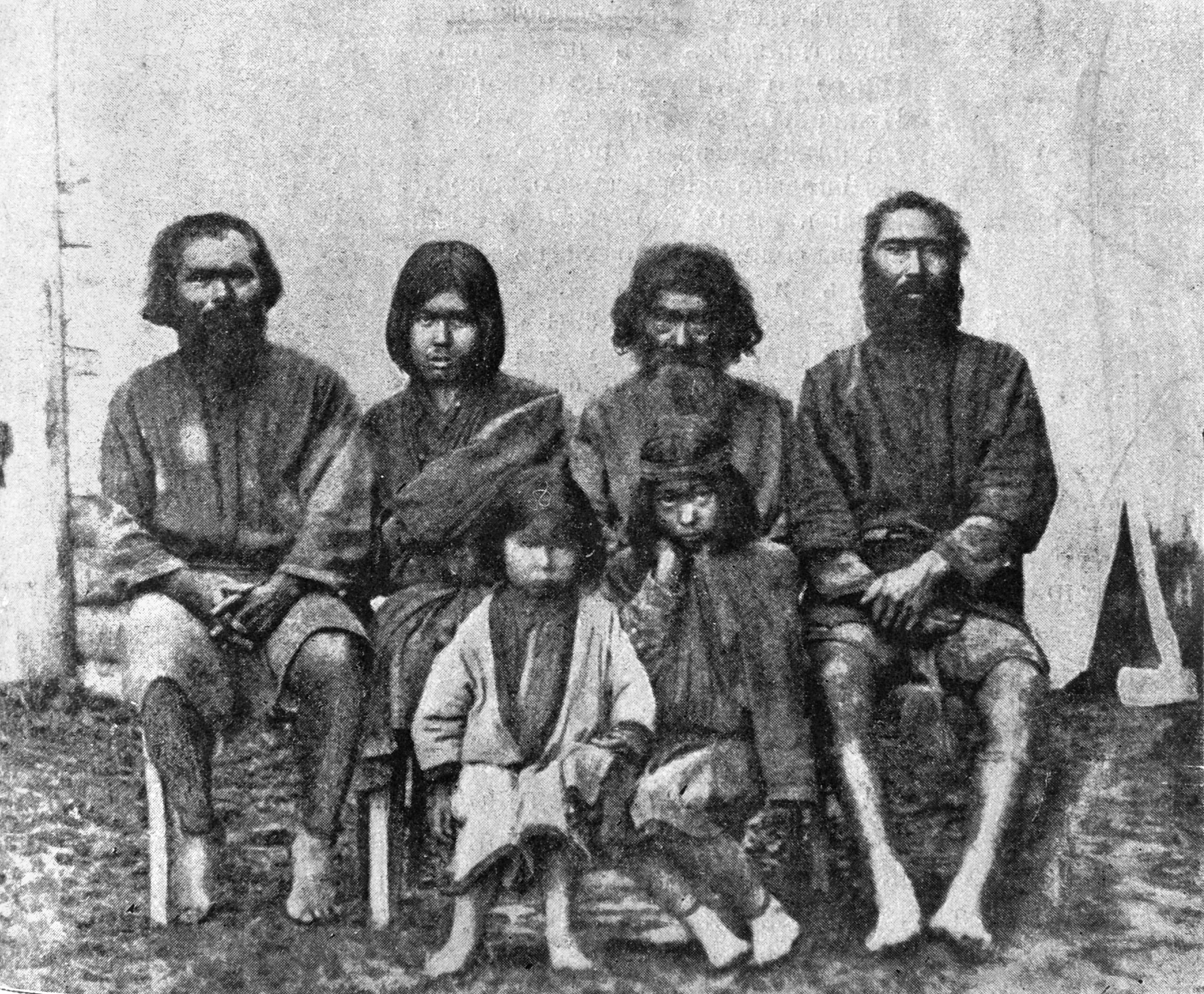 Native people of Sakhalin. Group of Ainu people